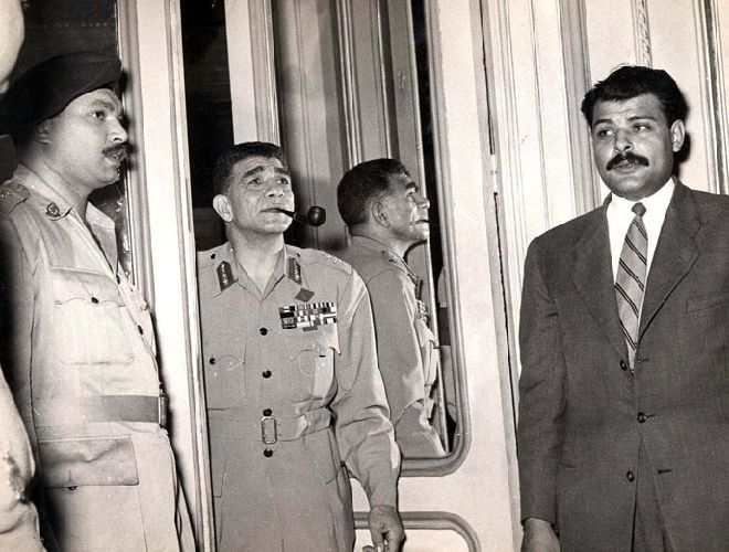 Muhammed Naguib (with pipe) as he left the presidential palace on Nov. 14, 1954.